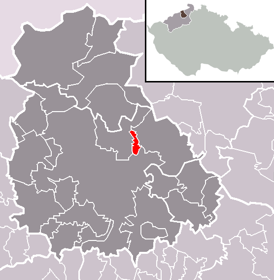 Location of Ryjice municipality within Ústí nad Labem District and administrative area of Ústí nad Labem as a Municipality with Extended Competence.